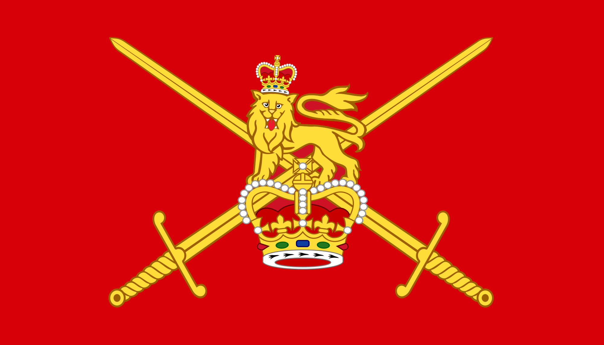 Improved version of